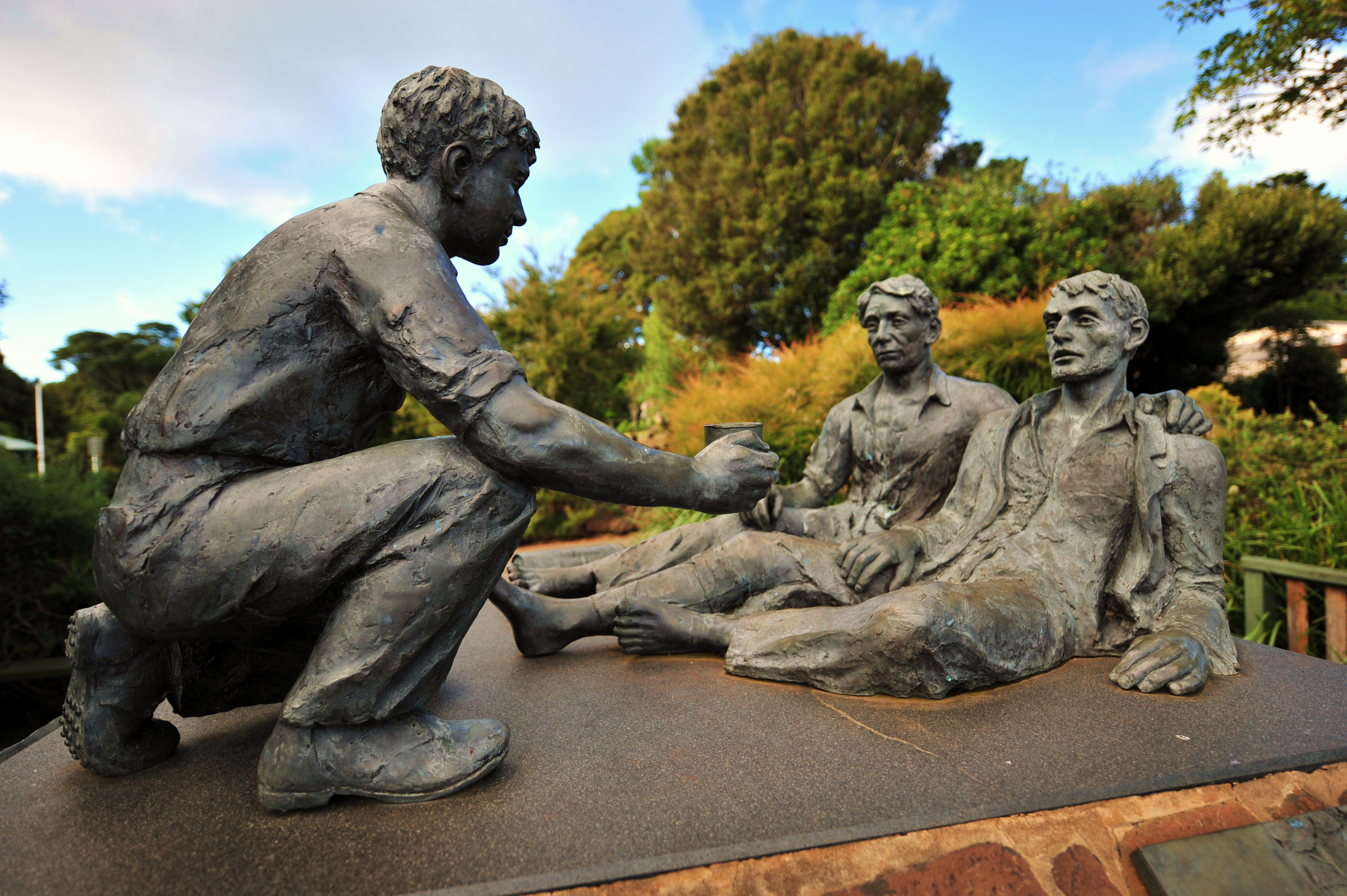 A bronze statue at O'Reilly's Rainforest Retreat, Queensland, Australia. Bernard O'Reilly in bronze depicting his rescue of the two plane crash victims in 1932.